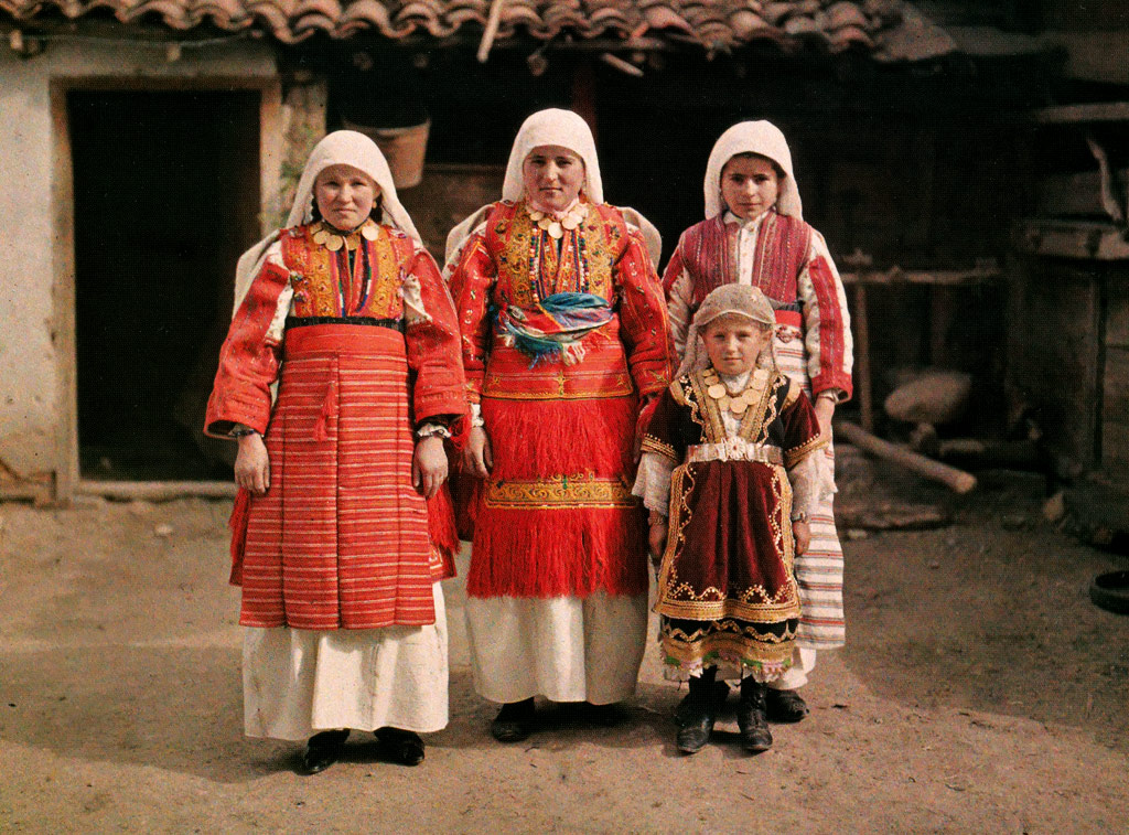 Сhildren in traditional costumes from Macedonia, 1913